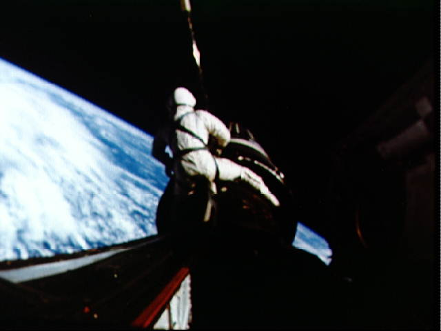 NASA astronaut Richard F. Gordon, Jr. returning to the hatch of the spacecraft after his EVA during the Gemini 11 mission in September 1966. NASA photo S66-54455 in public domain.